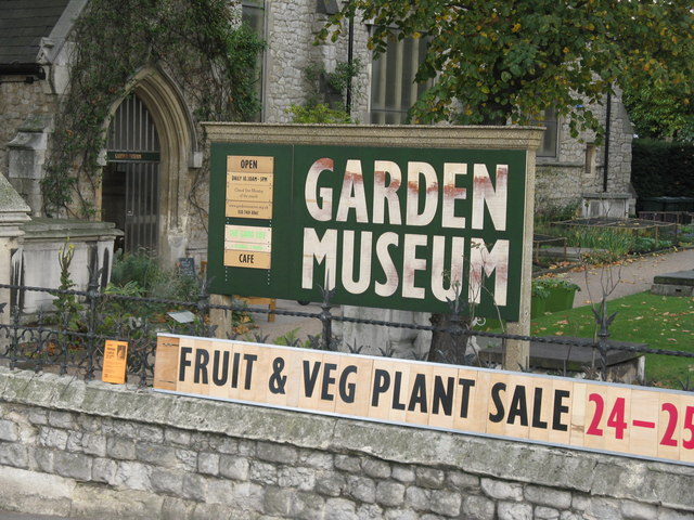 Garden Museum, Lambeth Palace The Garden Museum, Lambeth Palace, London.